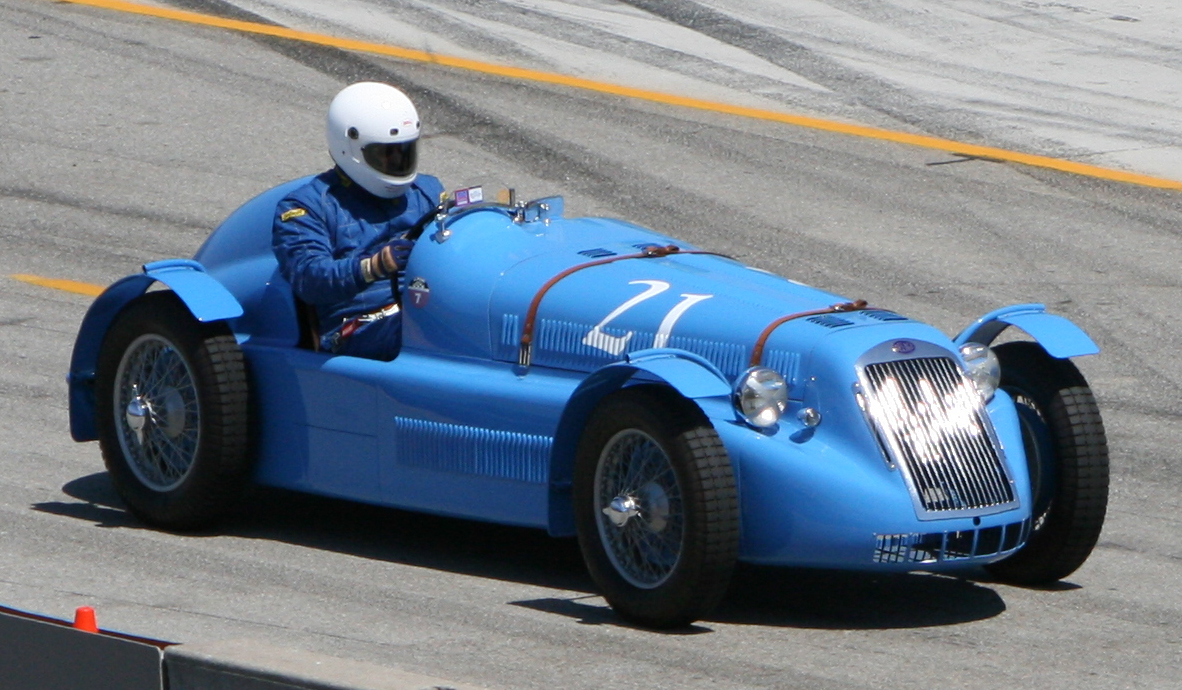 Delage D6 at Monterey, 2008